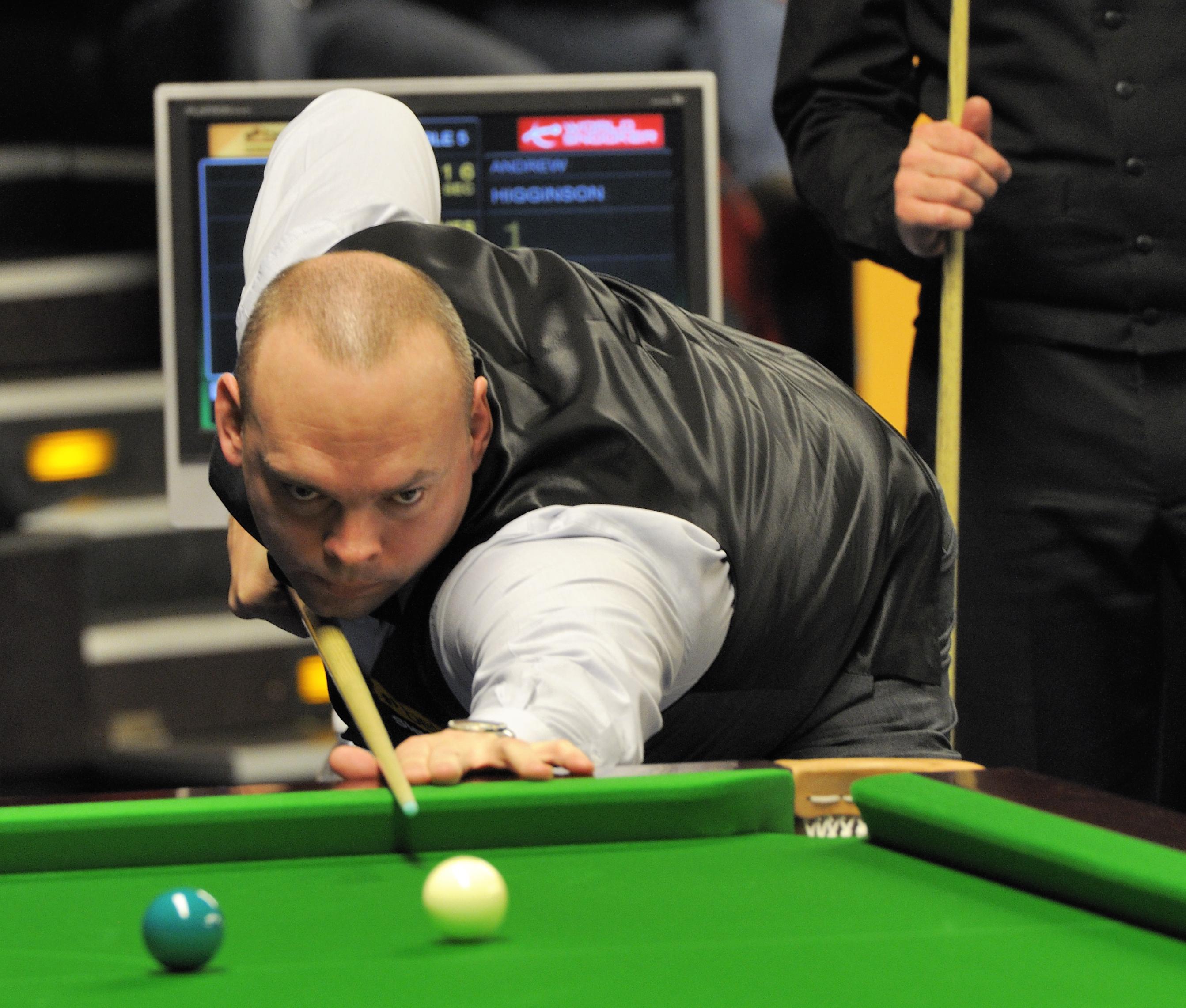 Picture taken in Berlin during the Snooker German Masters in 2013. Stuart Bingham.